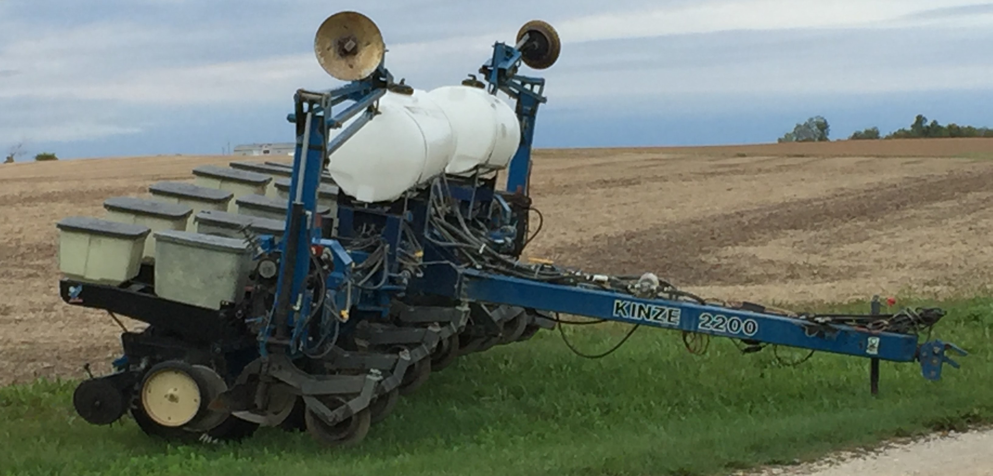 Kinze 2200 planter folded